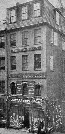 From: Sales catalog, Frost & Adams, Boston, 1905